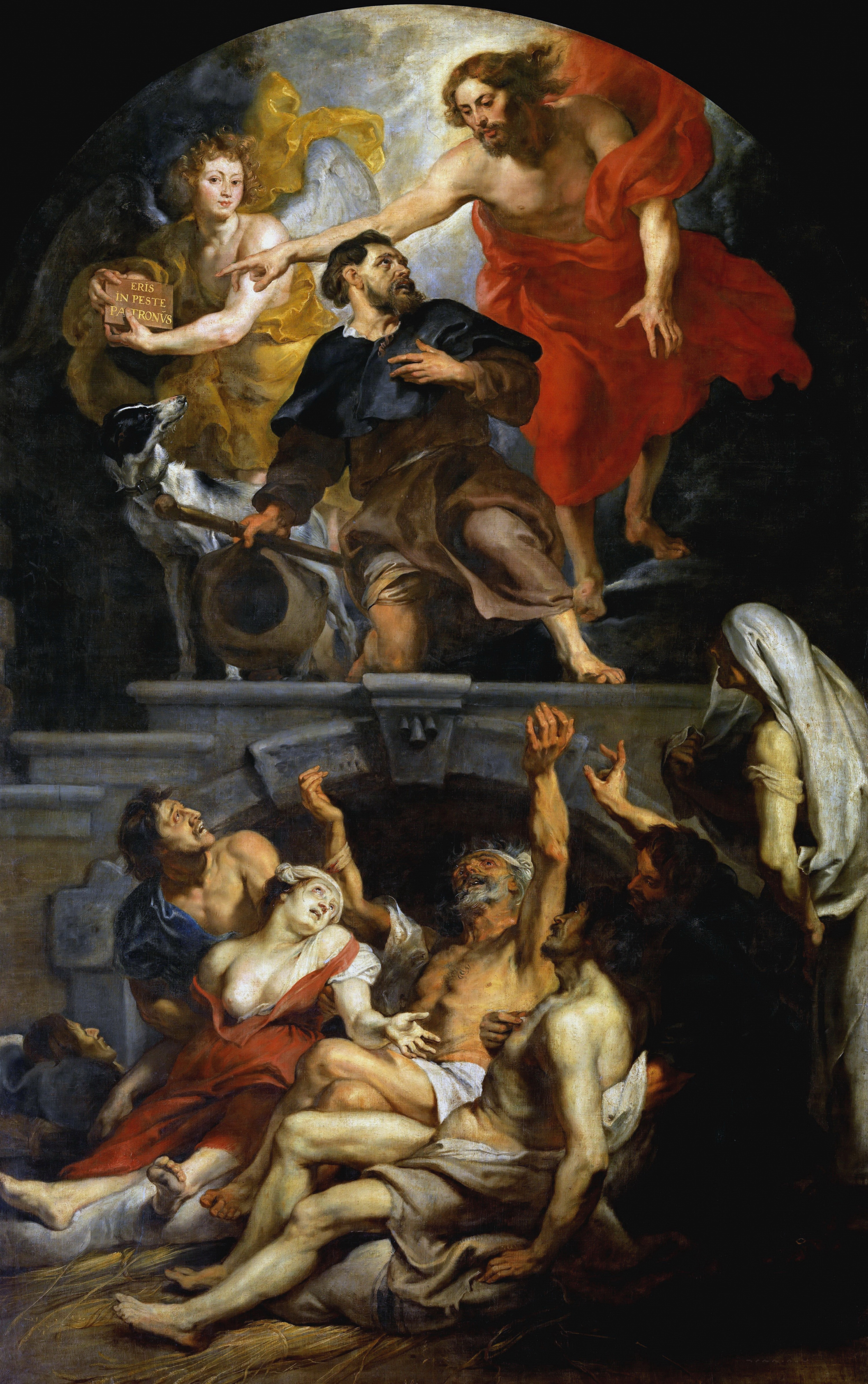 St. Rochus altarpiece by Peter Paul Rubens, St. Martin's church in Aalst, Belgium